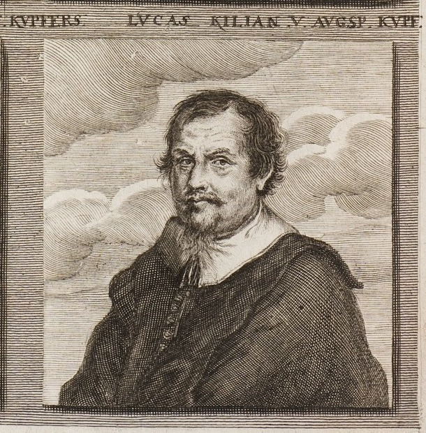 Portrait of Lucas Kilian, detail of engraving from the German Academy of the Noble Arts of Architecture, Sculpture and Painting, or Teutsche Academie, a comprehensive dictionary of art by Joachim von Sandrart, published in 1675 and later illustrated with engravings in 1683